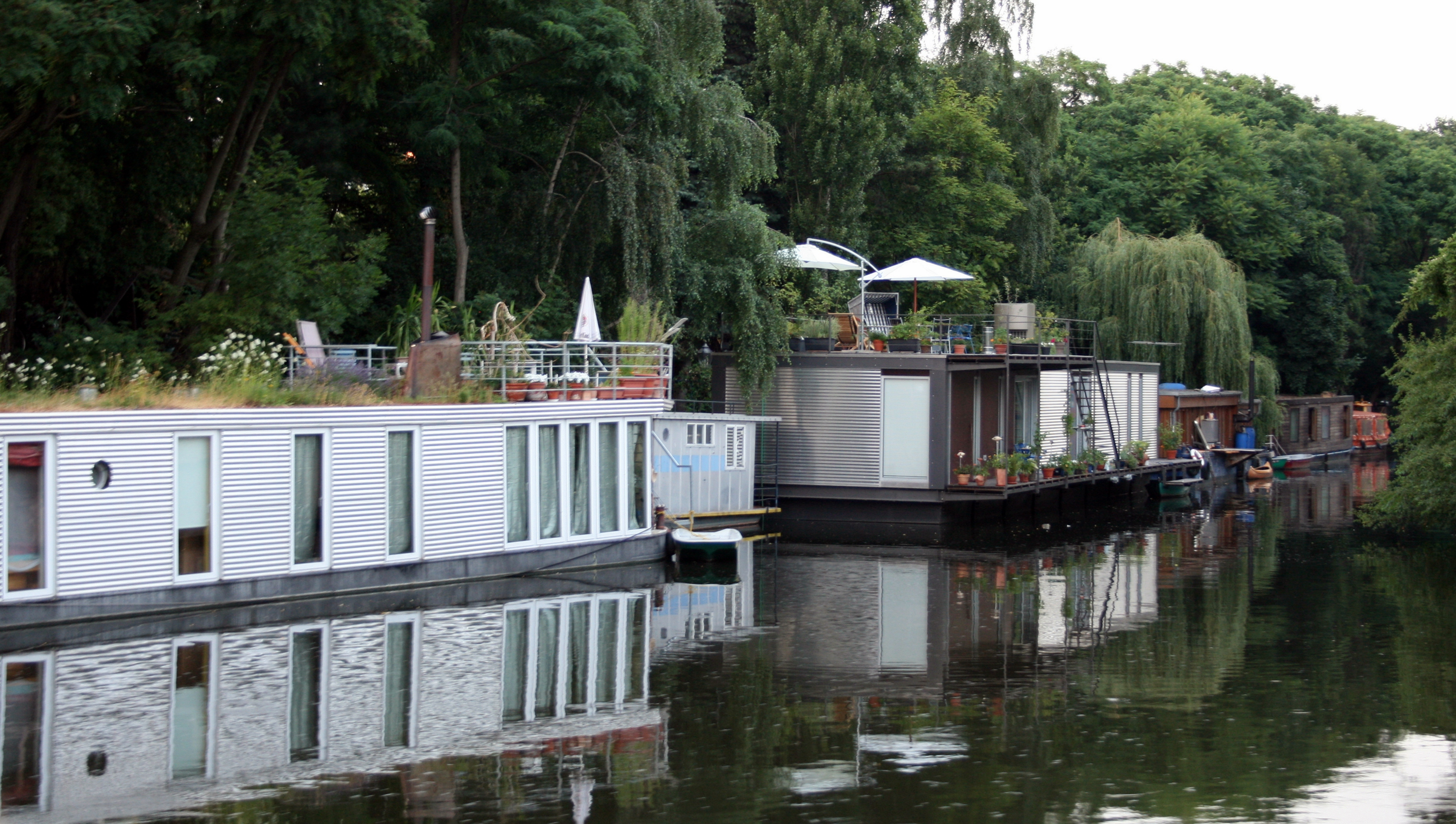 Berlin, Germany: houseboats on the Flutgraben of the Landwehr Channel at Berlin-Tiergarten.